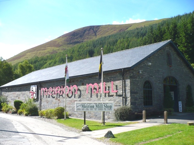 Meirion Mill, Dinas Mawddwy. A shop adjacent to 554030, it was formerly an engine shed.